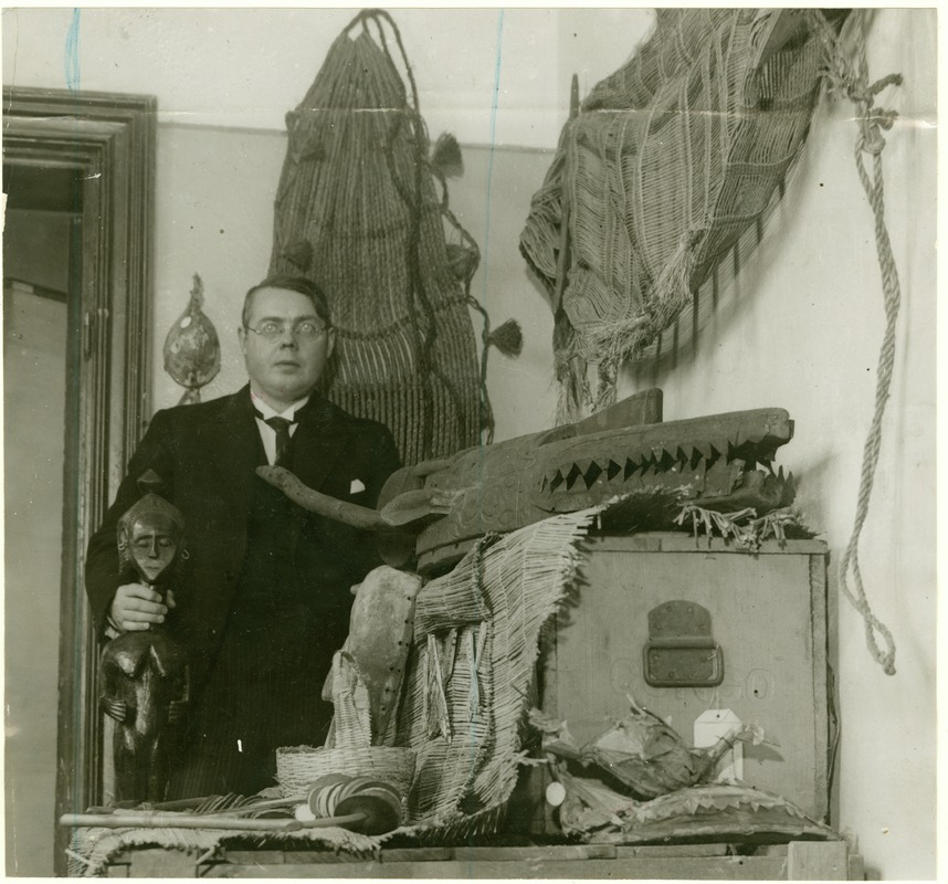 Gustaf Bolinder with artefacts from West Africa, preparing an exhibition in Stockholm 1931